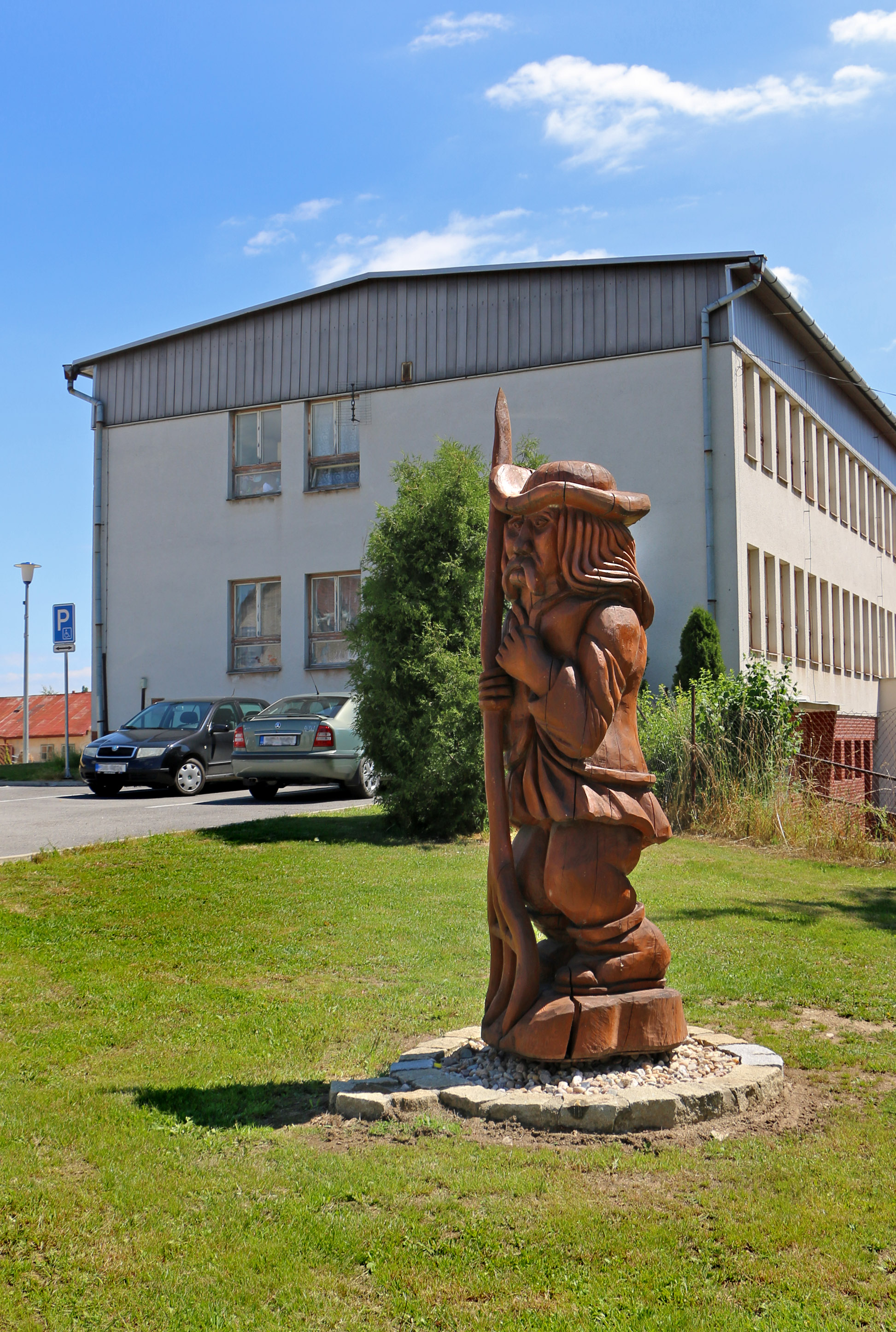 Wood statue in Stonařov, Czech Republic.